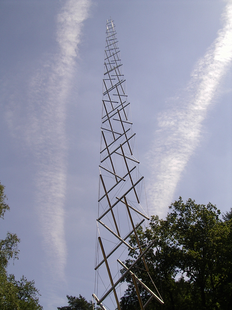 Needle Tower II (1969) by Kenneth Snelson in Sculpture Garden at Kröller-Müller Museum/The Netherlands